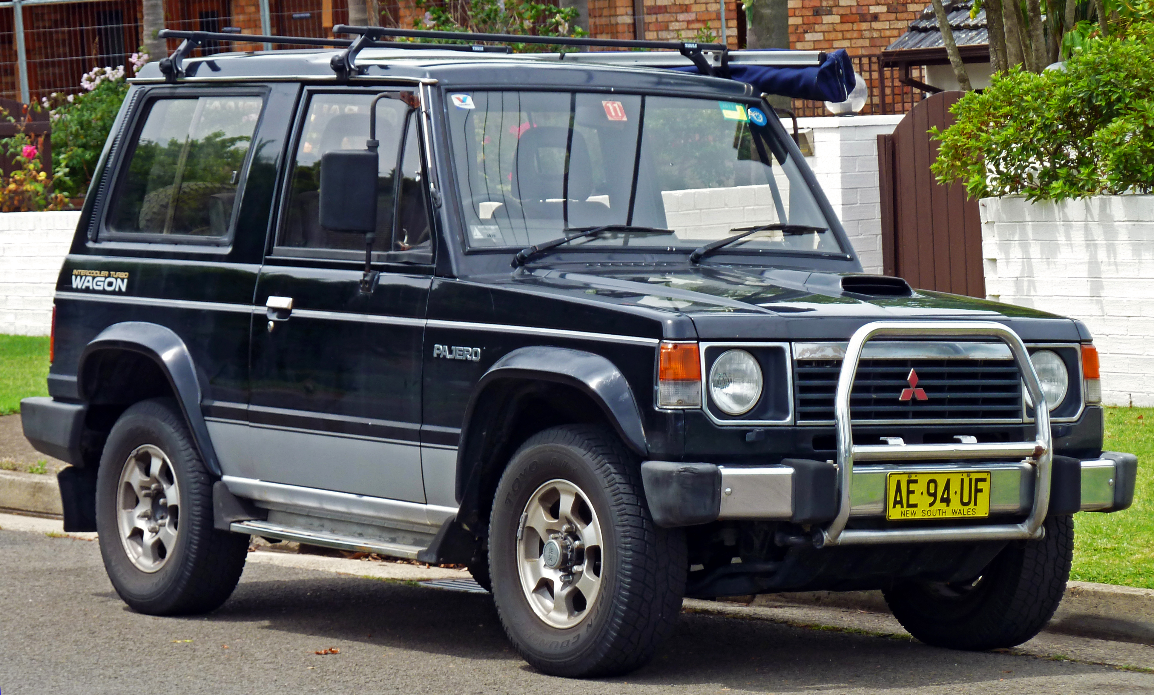 1989 Mitsubishi Pajero hardtop (Japanese grey import). Photographed in Kangaroo Point, New South Wales, Australia.